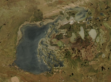 Tengiz-Korgalzhyn Lake System in Kazakhstan; Dust storm visible in the north; Image from MODIS sensor on Aqua satellite